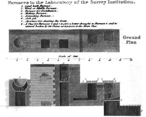 Diagram of chemical furnaces at the Surrey Institution, Plate VIII from Colin MacKenzie, One Thousand Experiments in Chemistry: With Illustrations of Natural Phenomena; and Practical Observations on the Manufacturing and Chemical Processes at Present Pursued in the Successful Cultivation of the Useful Arts (1822).